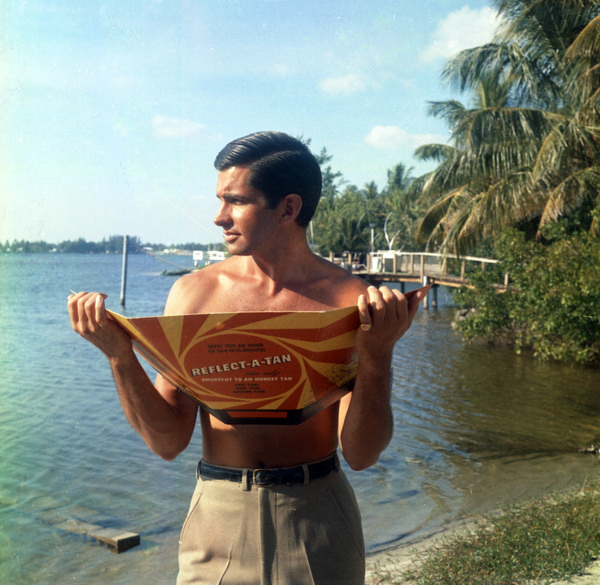 Local call number: BM00141 Title: Actor George Hamilton with the "Reflect-A-Tan" in Palm Beach Date: ca 1965 Physical descrip: 1 photonegative - col. - 60 mm. Series Title: Bert Morgan Collection Repository: State Library and Archives of Florida, 500 S. Bronough St., Tallahassee, FL 32399-0250 USA. Contact: 850.245.6700. Persistent URL